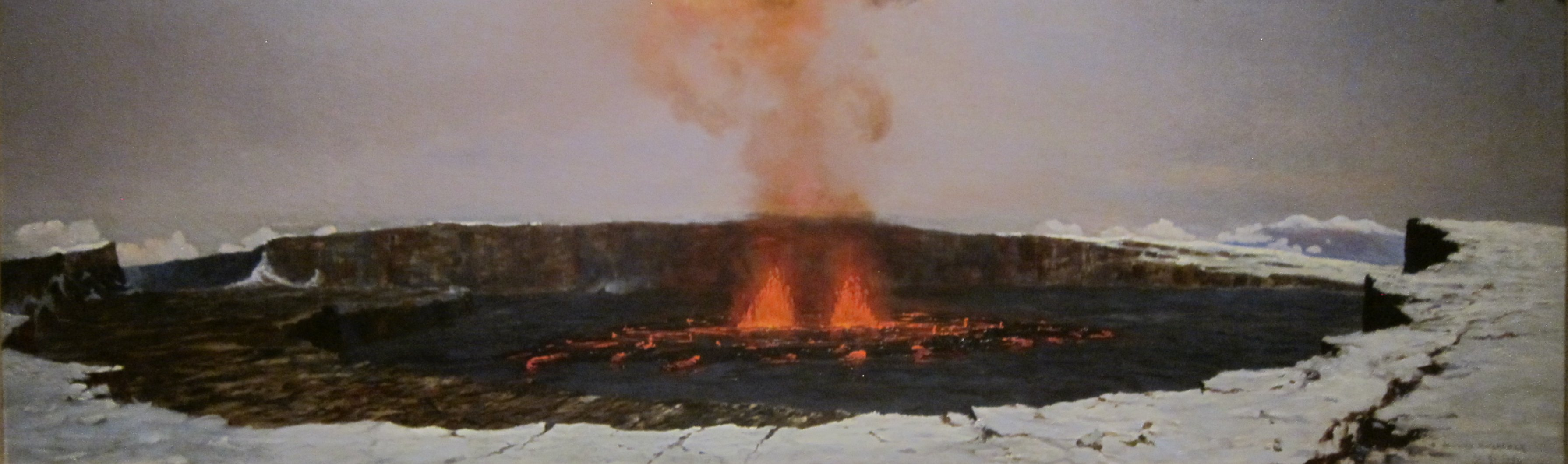 Mokuaweoweo Crater During Eruption of 1896 by D. Howard Hitchcock, 1896, Bishop Museum